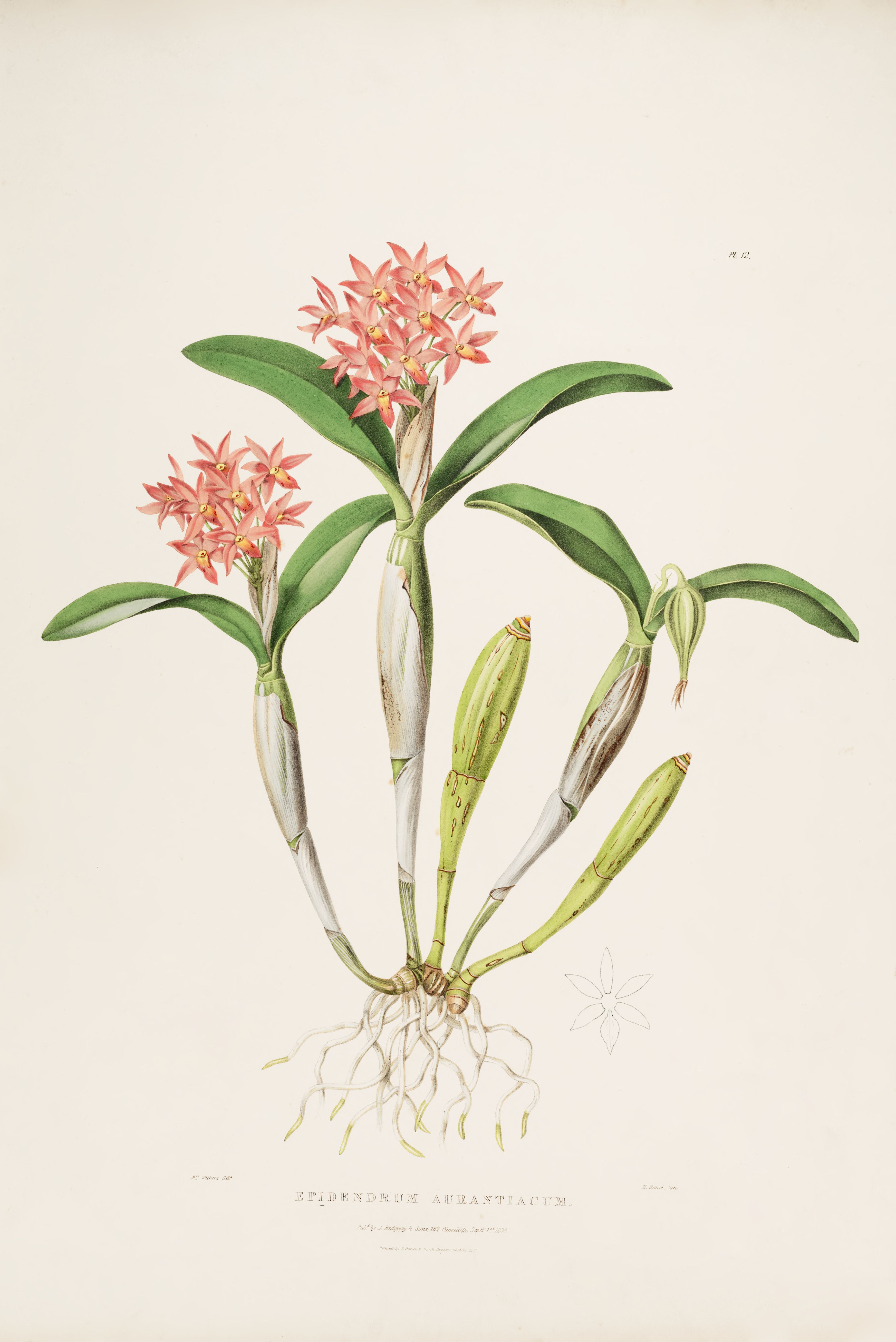 Illustration of Guarianthe aurantiaca (as syn. Epidendrum aurantiacum)